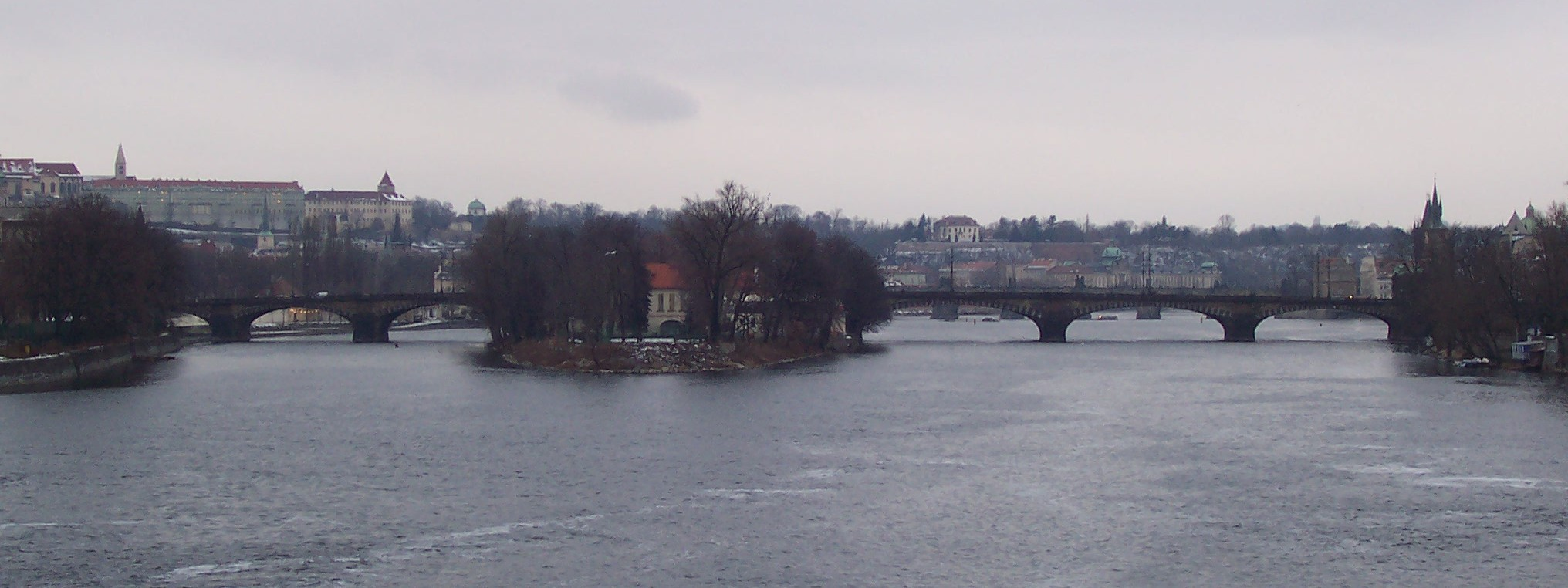 Bridge of Legions, Prague